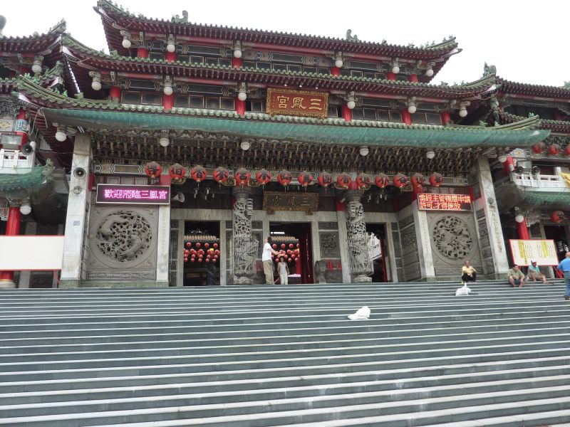 Sanfong Temple in Kaohsiung